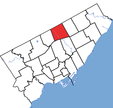 Don Valley North in relation to the other Toronto ridings (2015 boundaries)